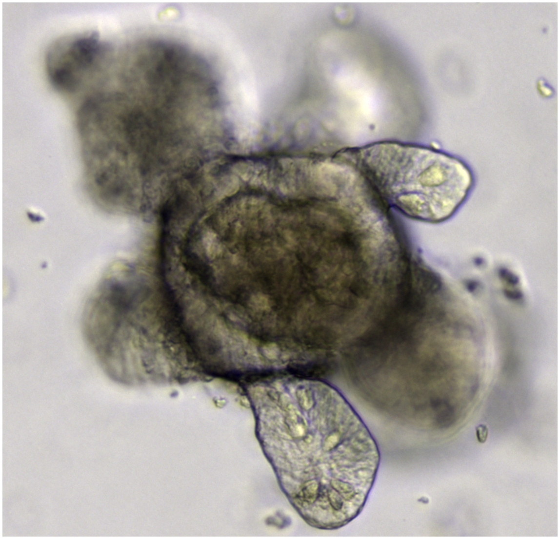 Intestinal organoid grown from Lgr5+ stem cells. St Johnston D (2015) The Renaissance of Developmental Biology. PLoS Biol 13(5): e1002149.